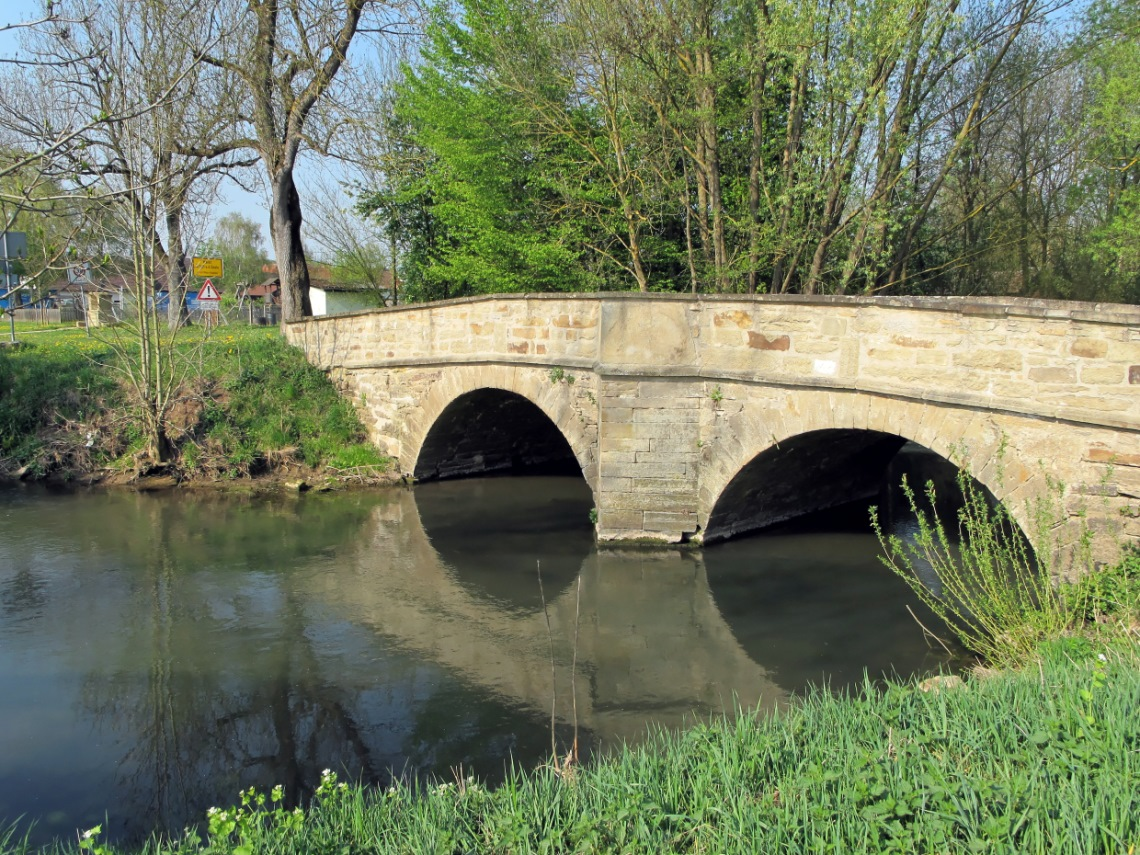 Village Saal an der Saale, bridge over the river Franconian Saale (upper course